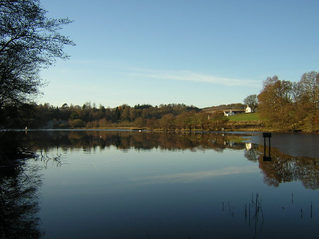 Carbeth Loch.